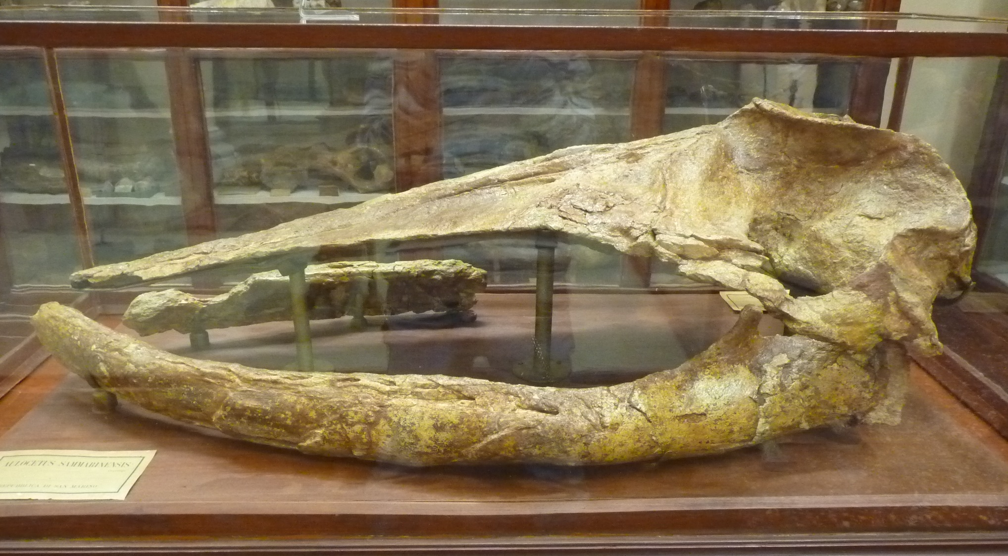 Fossil skull of Titanocetus sammarinensis (formerly Aulocetus sammarinensis), an extinct baleen whale. Middle Miocene of the Republic of San Marino. Museo Geologico Giovanni Capellini, Bologna (Italy).